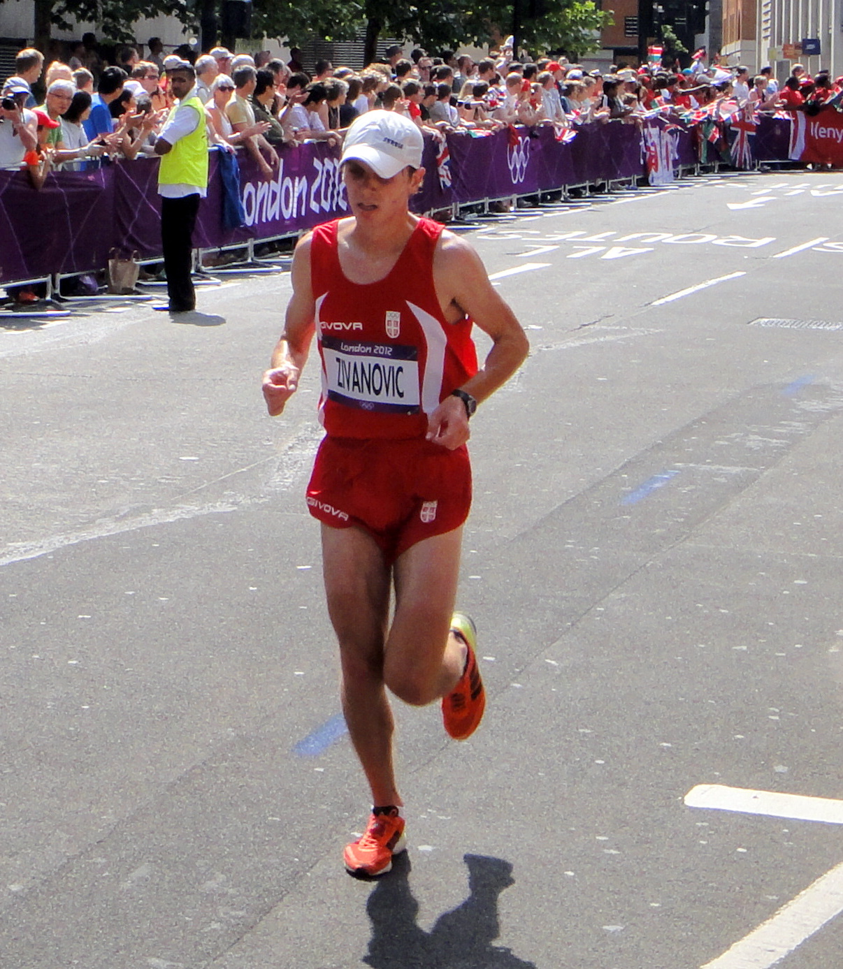 Darko Zivanovic (Serbia) - London 2012 Men's Marathon